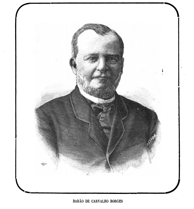 Portrait of the Baron of Carvalho Borges, Brazilian diplomat. From the Portuguese weekly 'A Illustração Portugueza', Year 4, nr. 52, p. 5, 20 July 1888. Copy from the Hemeroteca Municipal de Lisboa.